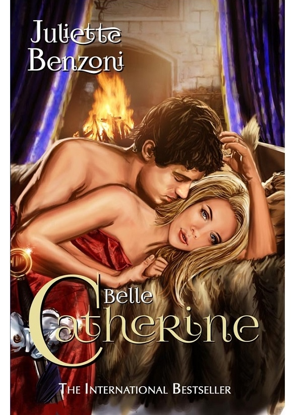 Front cover of Juliette Benzoni's Belle Catherine, published by Telos Publishing